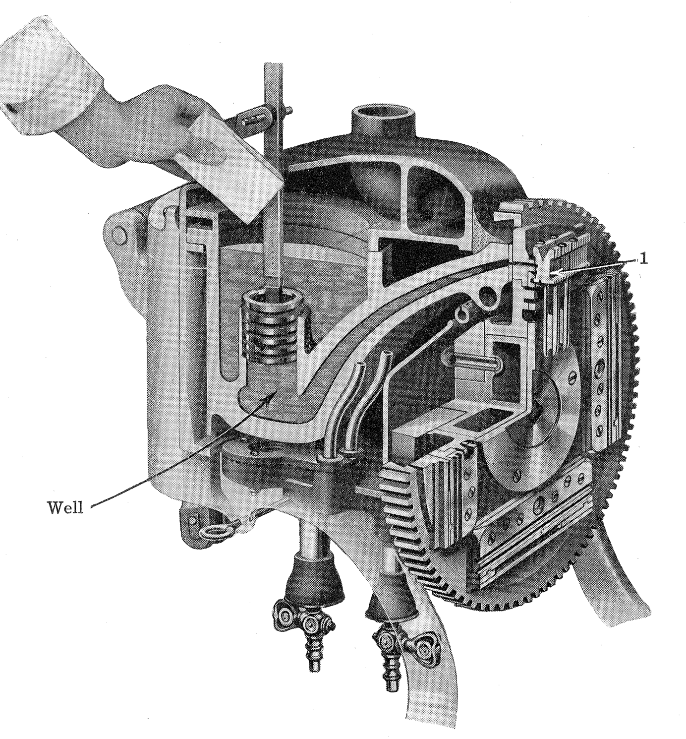 Linotype mold disk, cut away to show the type metal pot